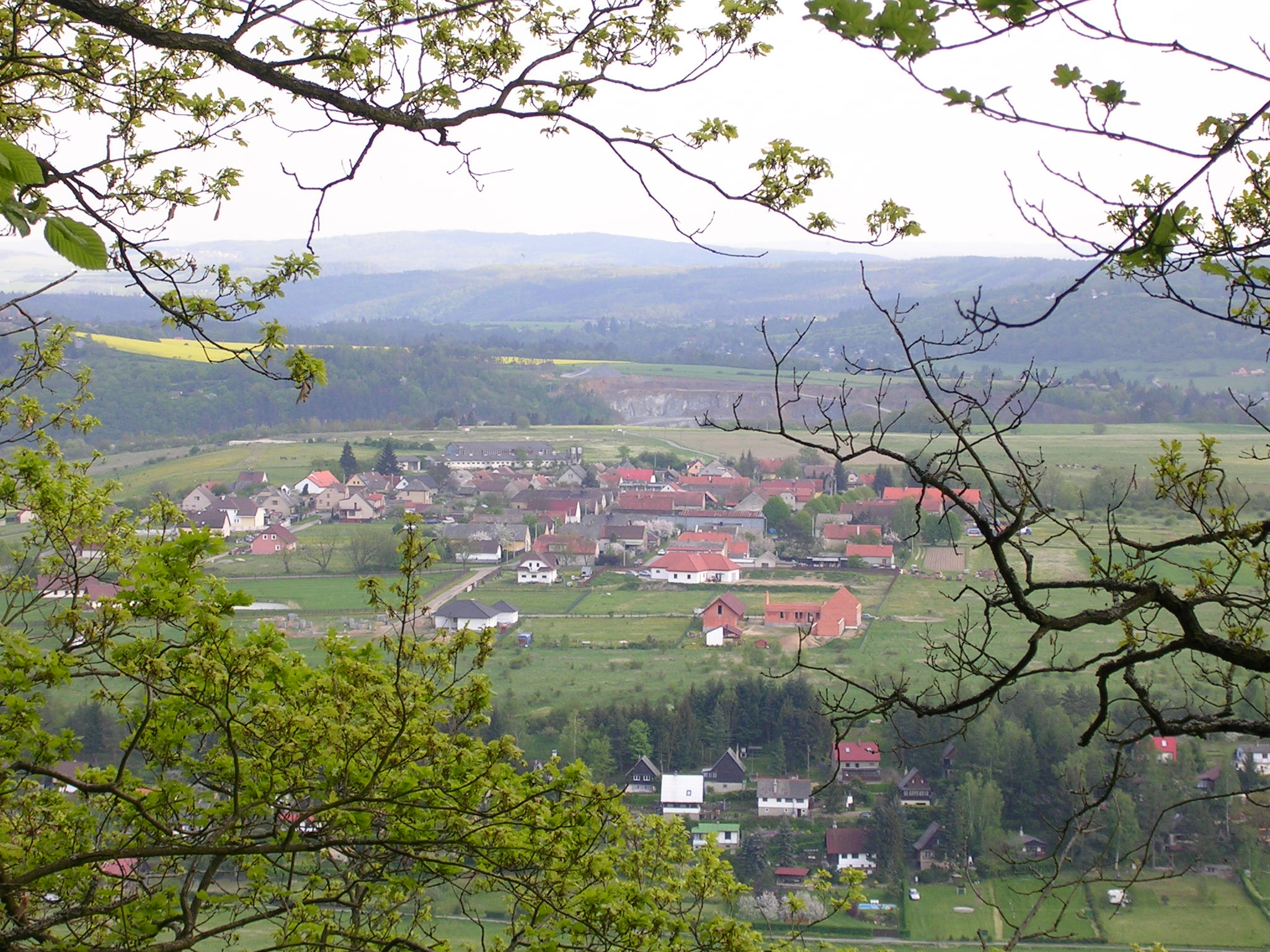 Zbečno-Újezd nad Zbečnem-Pohořelec, the Czech Republic.